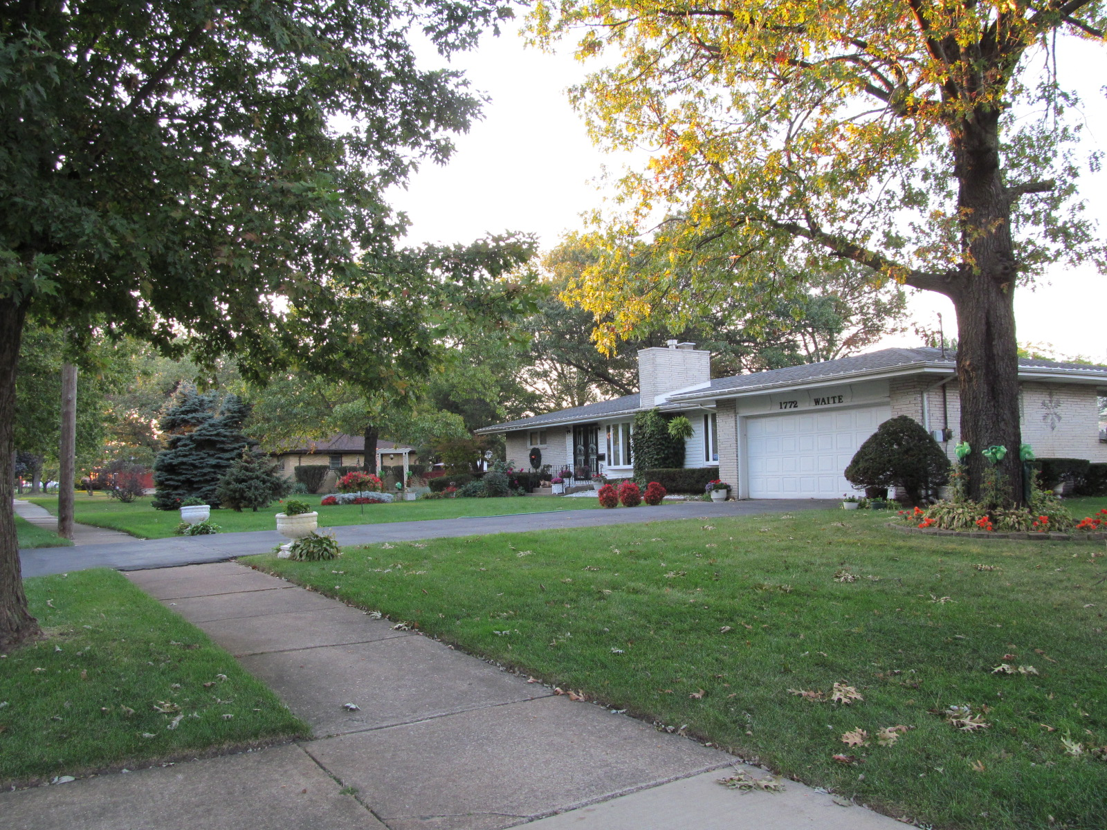 Tolleston Homes